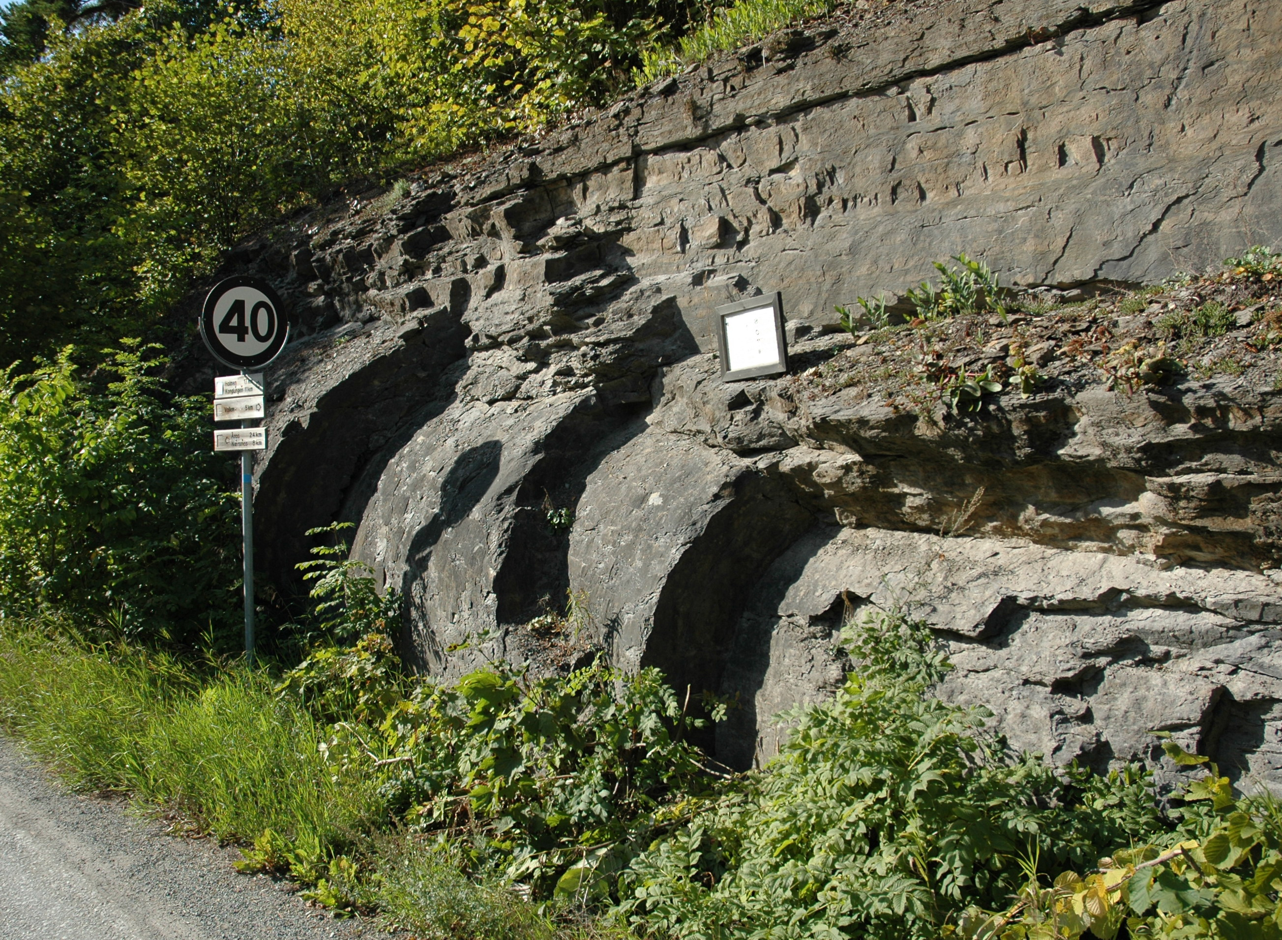 An anticlinal at Bjerkaas, Norway, a part of the Oslo Region. My own photograph, Kjetil Lenes.